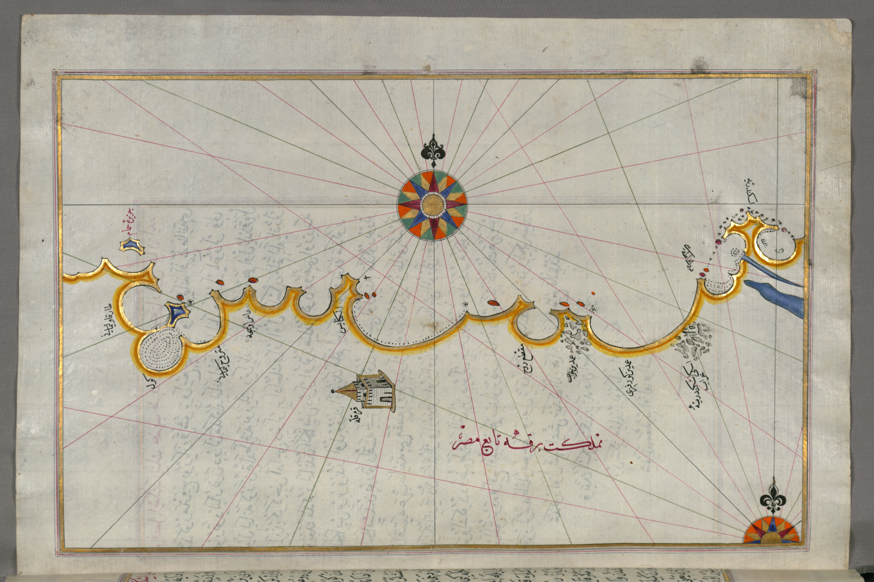 This folio from Walters manuscript W.658 contains a map of the Egyptian coast from Matruh east towards Alexandria.